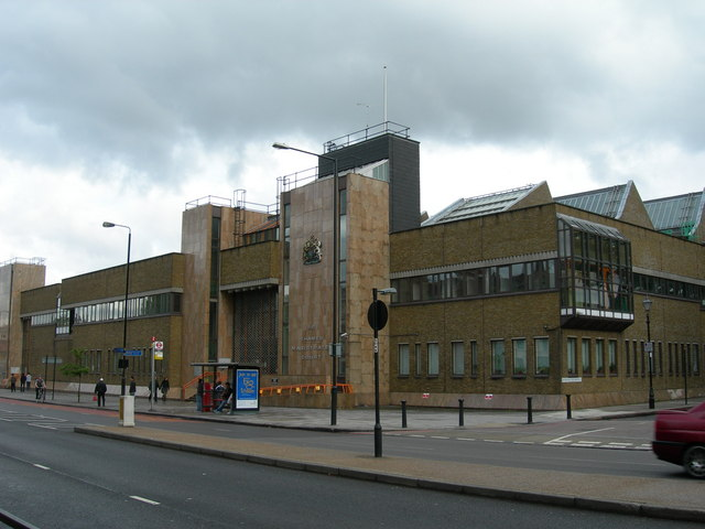 Thames Magistrates Court. This court is on Bow Road, E3, at the corner with Mornington Grove.